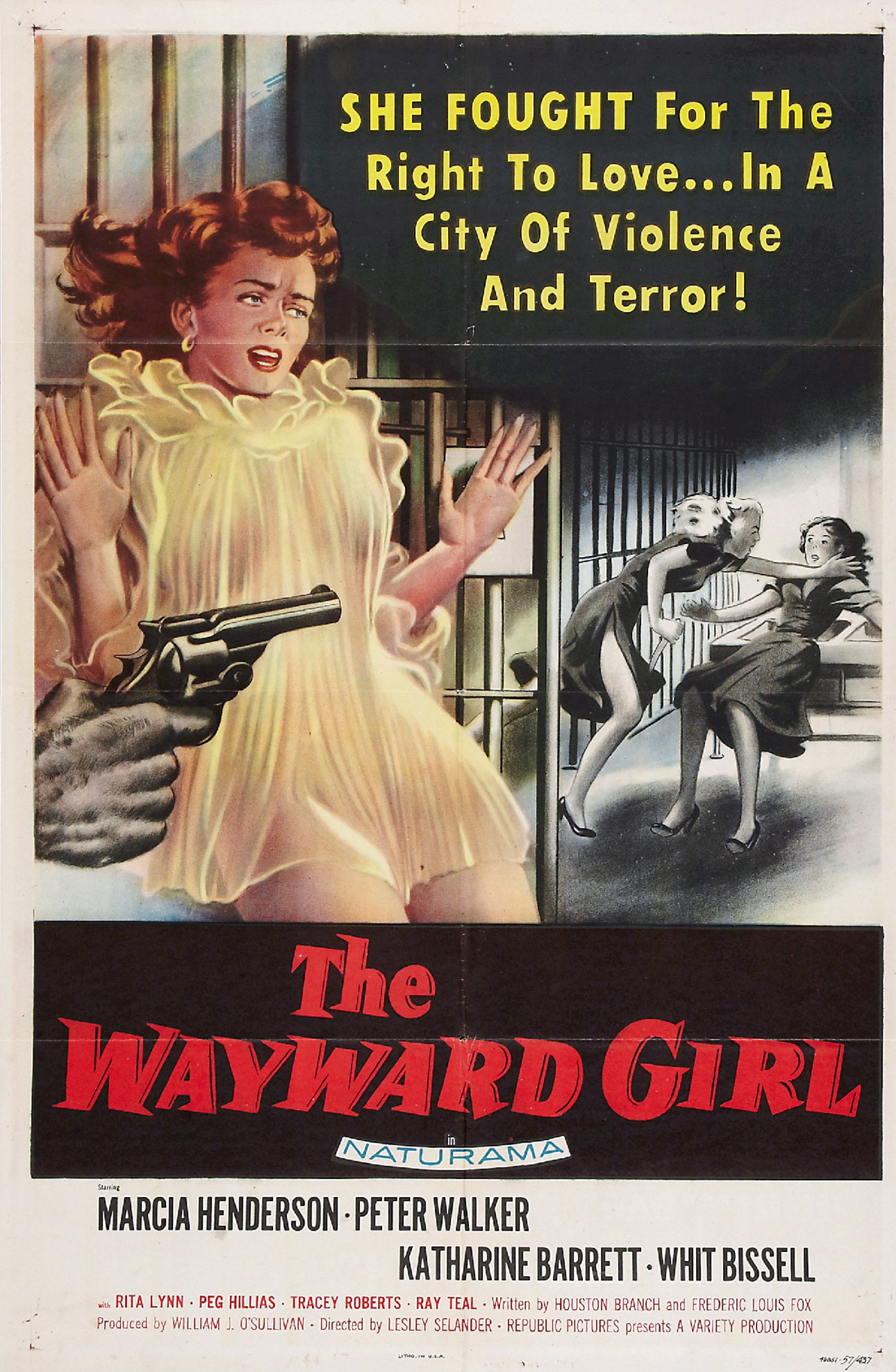 Poster for the 1957 film The Wayward Girl. There are no copyright marks. At bottom is Litho in USA and 49851 57/437.